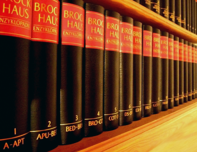 A Part of the Brockhaus Encyclopedia.